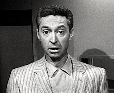 James Griffith in The Amazing Transparent Man (1960) - cropped screenshot